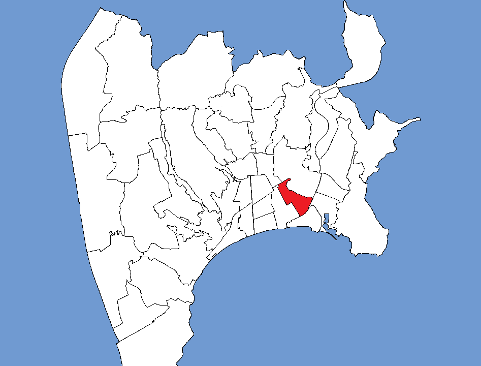 Location of the neighbourhood Carabacel in Nice